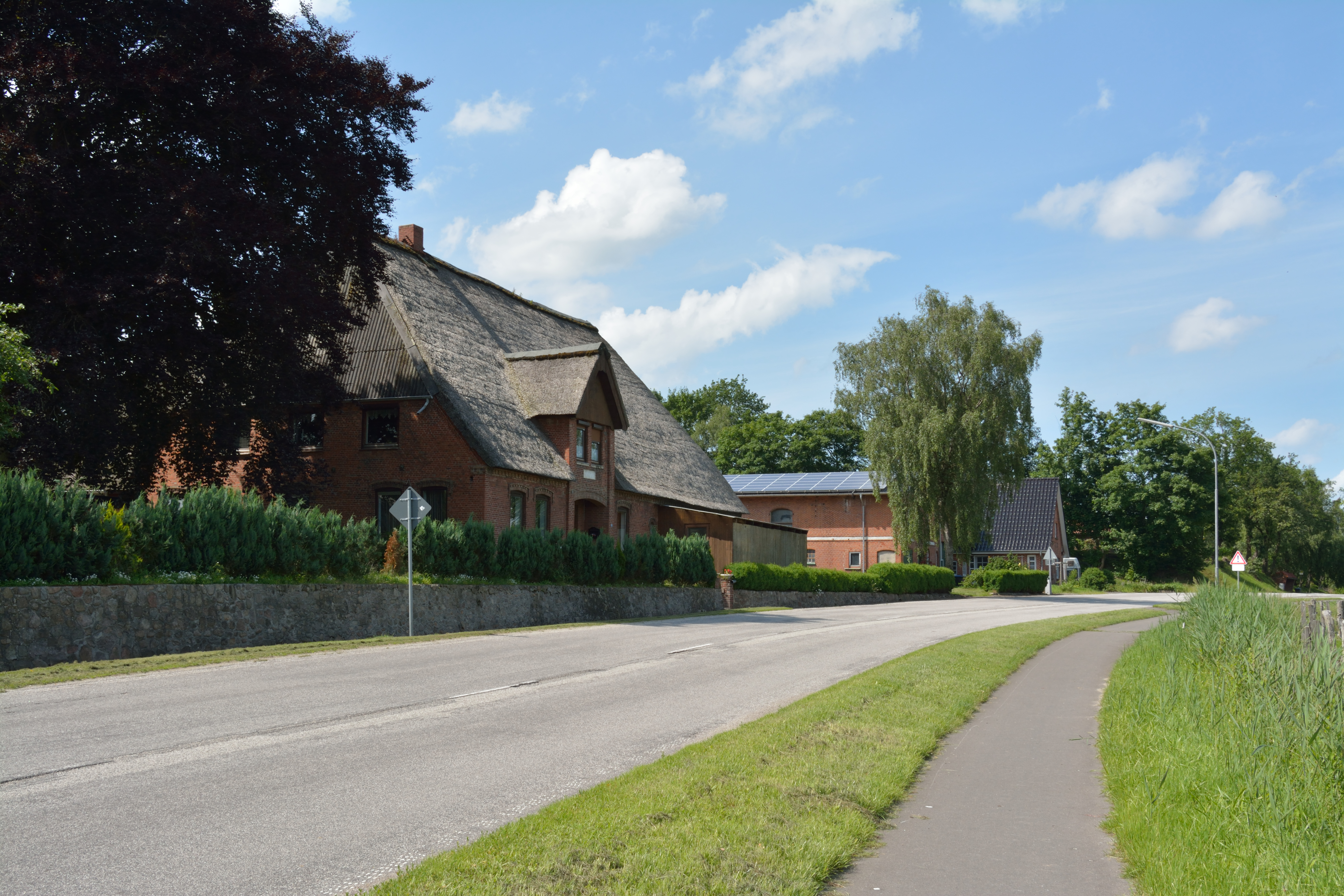 Main street of Nutteln